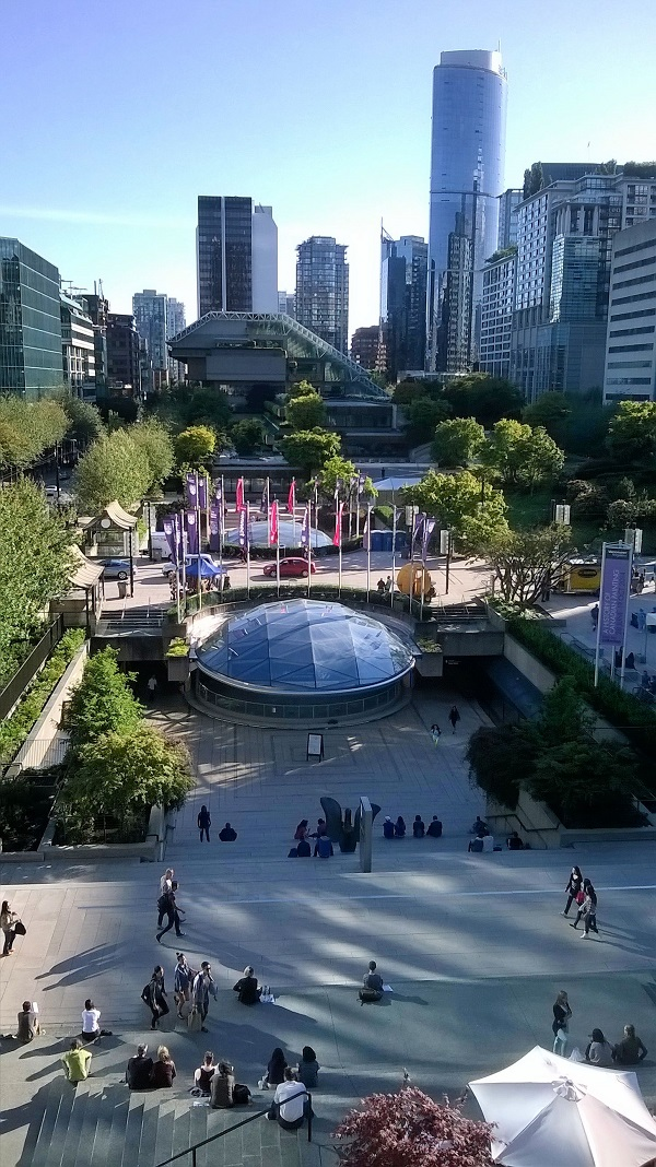 Vancouver, BC